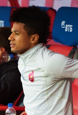 Diego Carlos